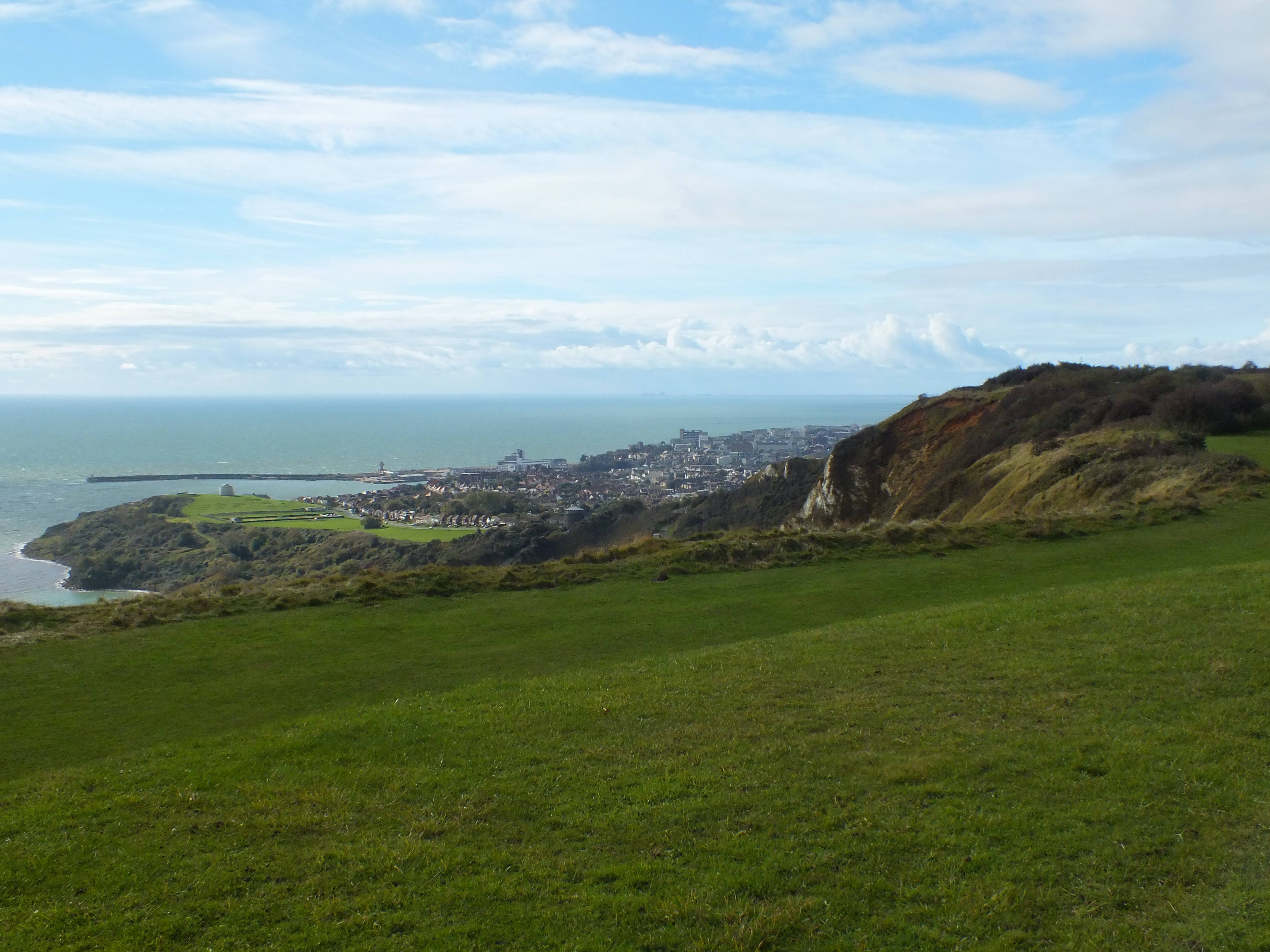 Battle of Britain Memorial, Capel-le-Ferne looks out over the English Channel with Folkestone Warren 100 m below. Folkestone, the harbour, the Warren and a Martello tower